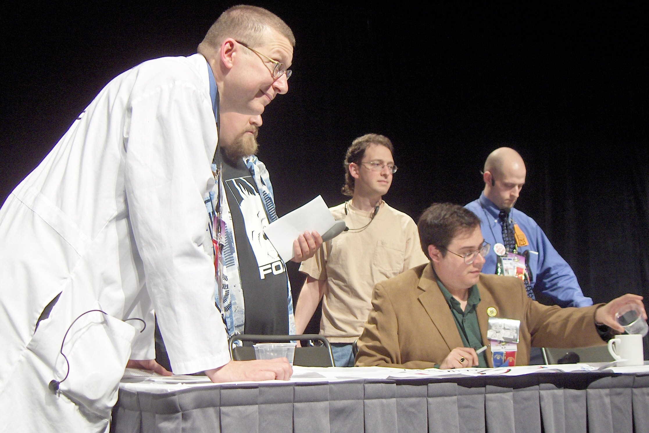 Certain members of the Anthrocon board answer questions after closing ceremonies of Anthrocon 2007. From left: Convention Chariman Dr. Samuel Conway (Uncle Kage), Registration Director Phillip "Bennie" Pollard, Charity Director Brian Harris (Rigel), Programming Director John "K.P" Cole, Operations Director Douglas Muth (Giza).